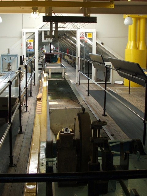 The Denny Tank. This tank was built in 1882, is A-listed, and was the world's first civilian ship model experimental tank, containing 1.75 million litres of water. It was designed for the Denny shipyard, which stood nearby [information in this paragraph can be found in a "Dumbarton Heritage Trail" leaflet]. The Denny Tank was inspired by William Froude's Admiralty Tank in Torquay (1135938), and is still used for testing hull designs down to the present day. See also 1135981, which shows the far end of the tank. For an external view of the building containing this tank, see 1135923. This building is part of the Denny Tank Museum, which is the Dumbarton branch of the Scottish Maritime Museum; see 620082. There is also an engine on display outside the museum; see 1135887.